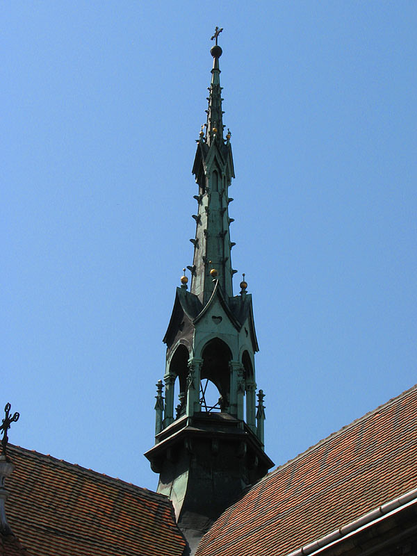 Spire on the church of St Stanislav in Chotkiv, Ternopil region, Ukraine